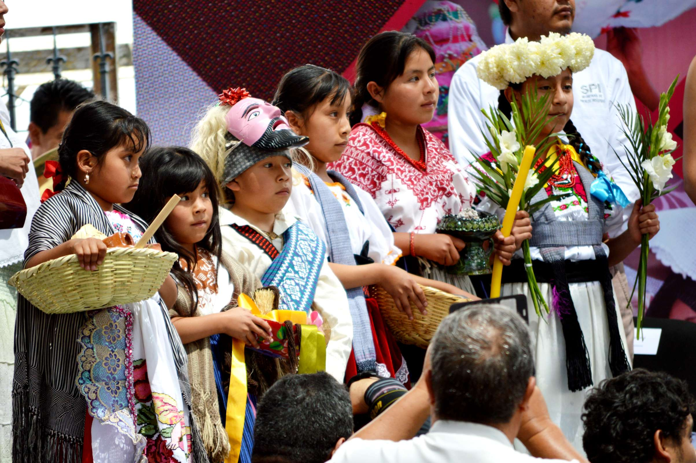 Representatives of the Purhepecha people at the 2015 Muestra de Indumentaria Tradicional de Ceremonias y Danzas de Michoacán, part of the Tianguis de Domingo de Ramos in Uruapan, Michoacan, Mexico